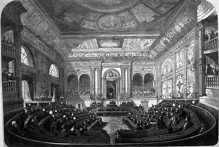 The Senate of the Kingdom of Italy seating in the Uffizi, Florence.